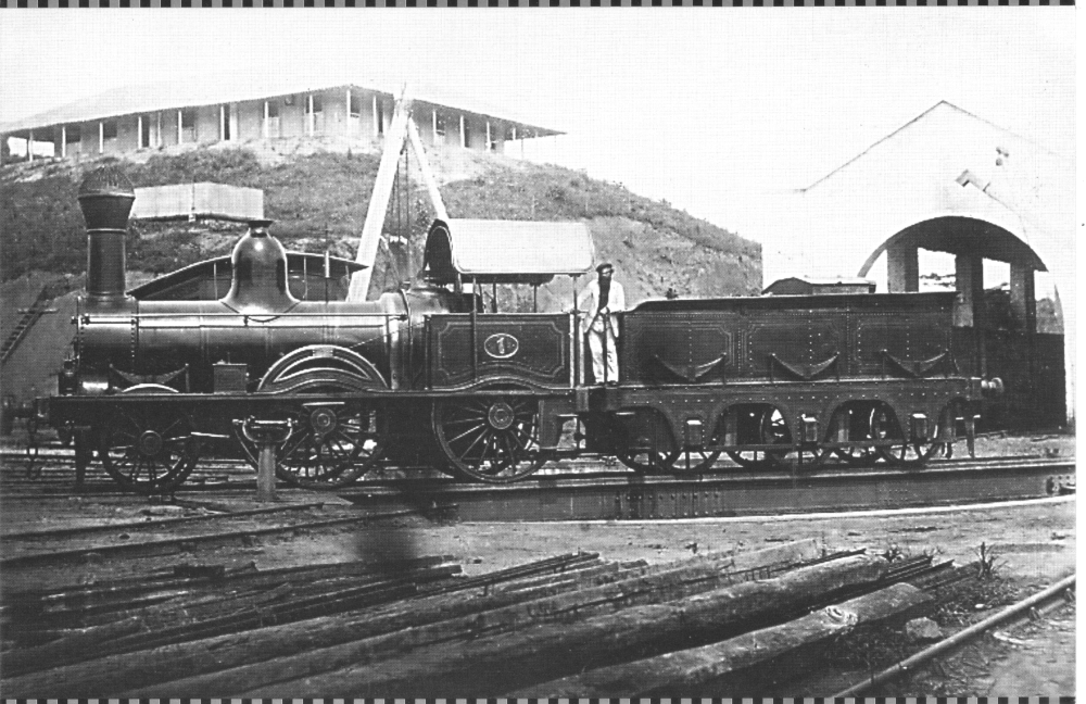 Locomotive nº 1 the Recife and São Francisco Railway Company, second railroad built in Brazil, inaugurated in 1858, they had broad gauge (1.60 meters)